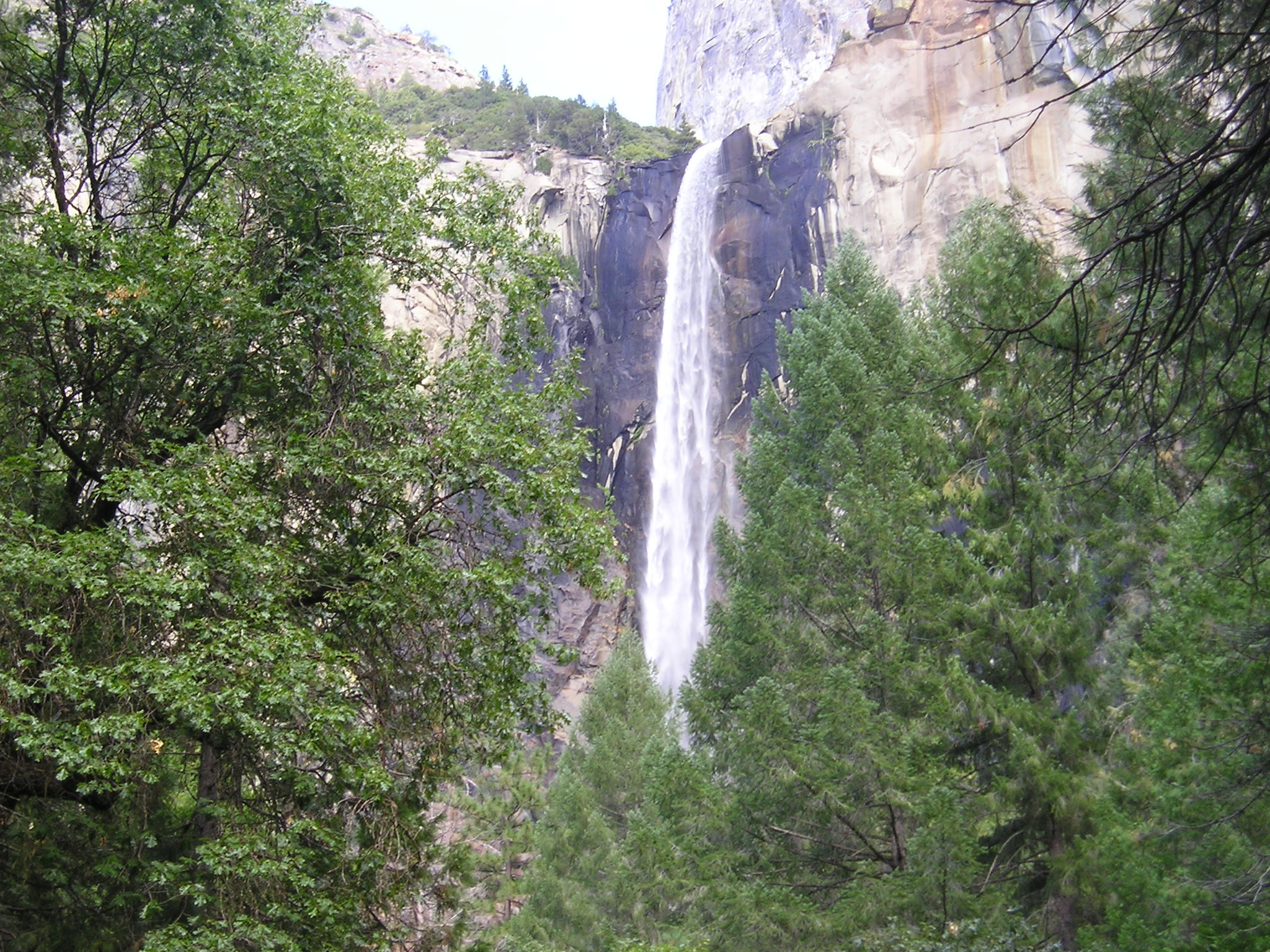 Bridalveil Fall, summer 2005. Yosemite National Park, California